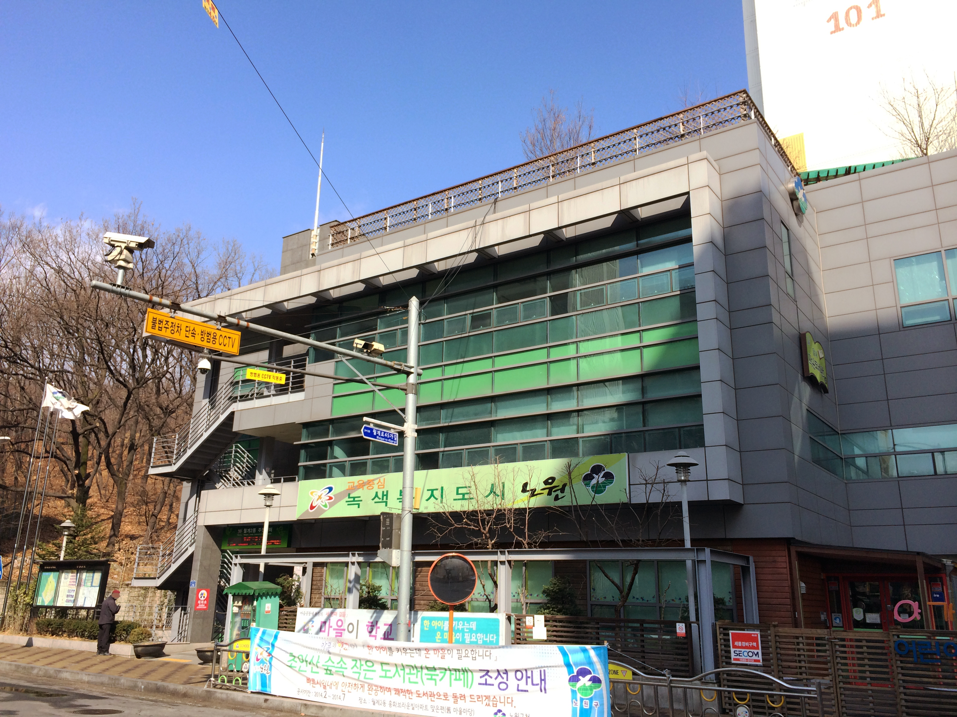 Wolgye 2-dong Comunity Service Center (Nowon-gu)